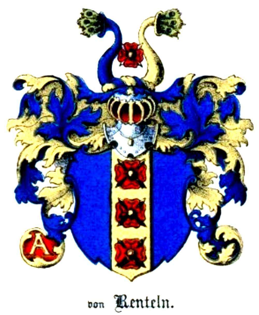 Coat of arms of Renteln family.